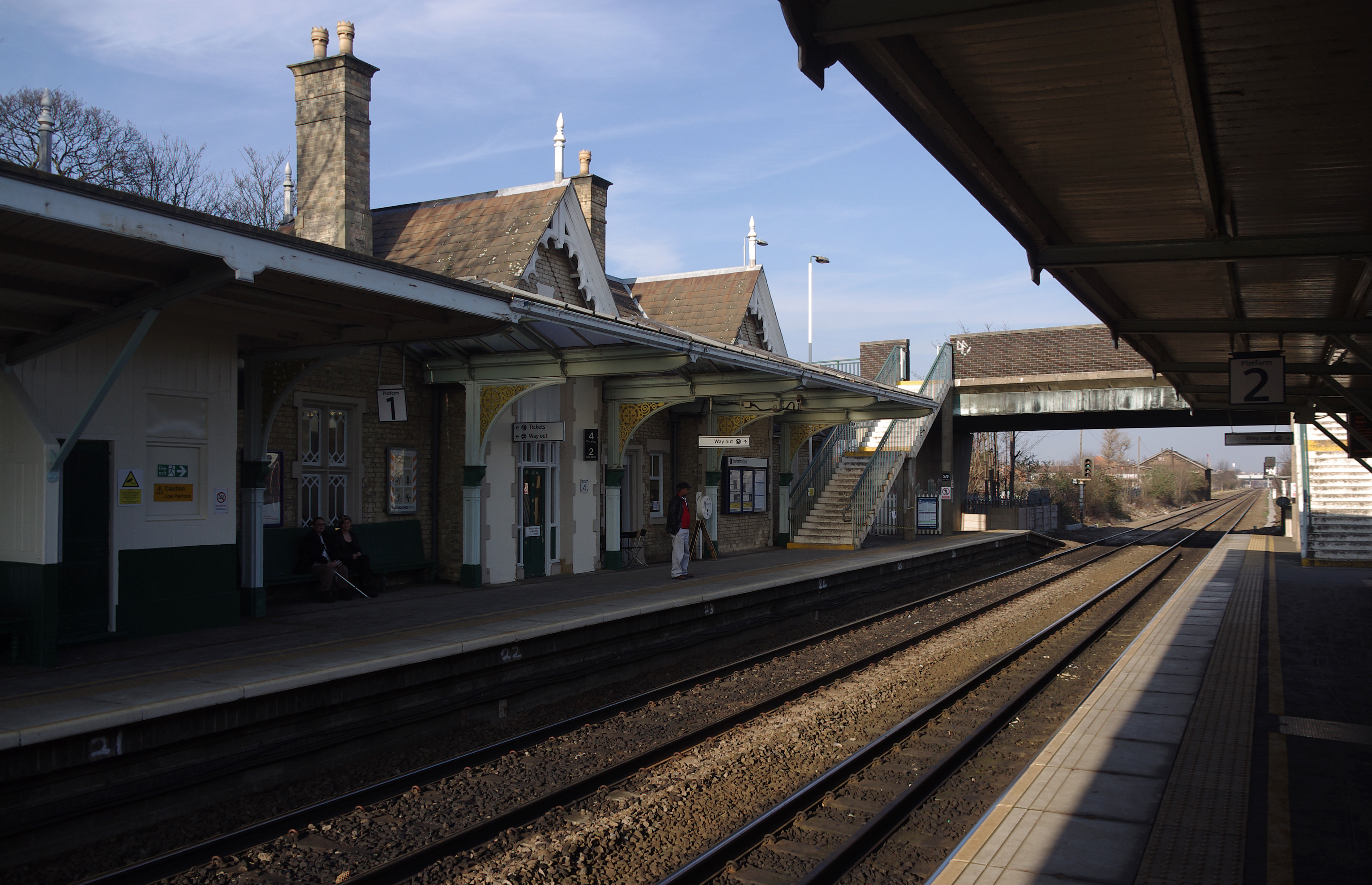 Beeston railway station, looking east.